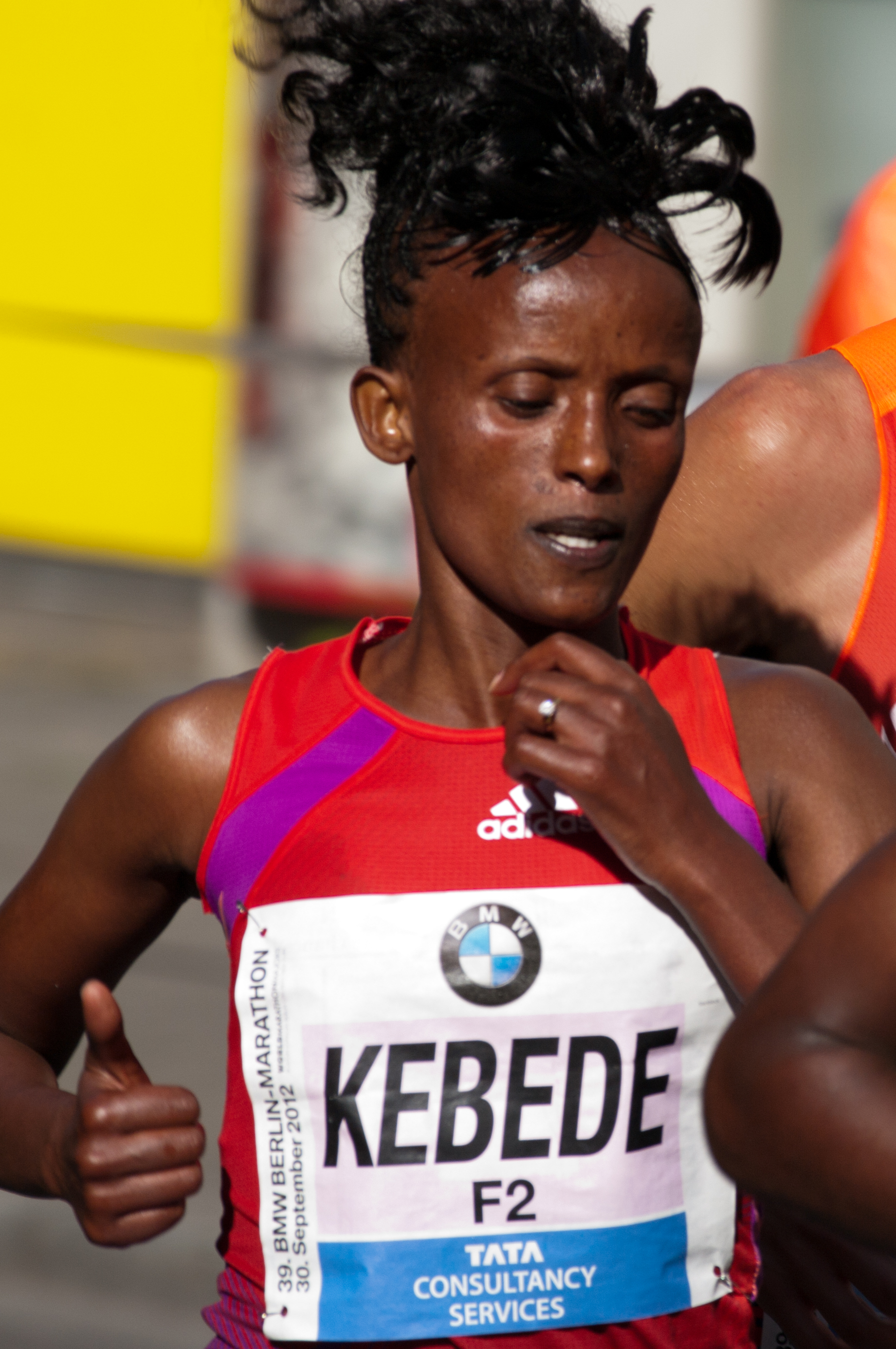 Ethiopian runner Aberu Kebede at the Berlin Marathon 2012. Here on Bülowstraße, between Kilometers 36 and 37.